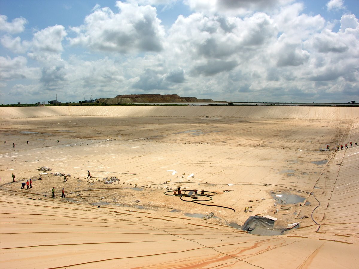 Buzwagi Goldmine, Kahama, Tanzania